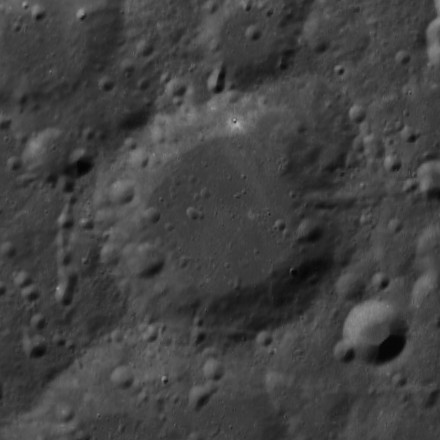 Boole crater, on the moon. Lunar Reconnaissance Orbiter North Polar mosaic.